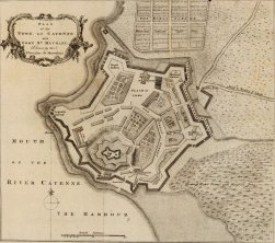 A map from 1760 depicting the fortifications of the town of Cayenne in French Guiana.